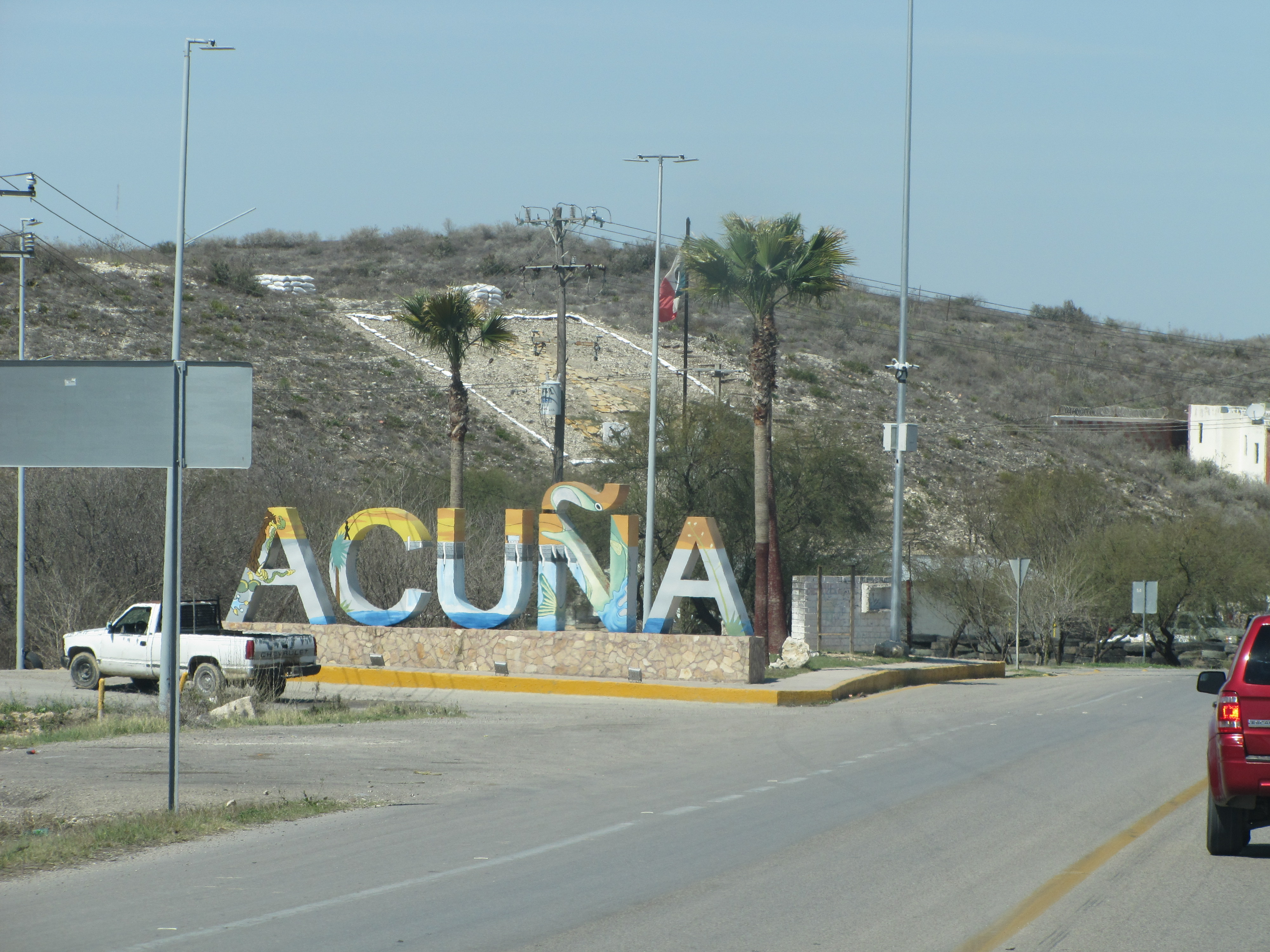 Just before the military checkpoint at the entrance of Ciudad Acuña